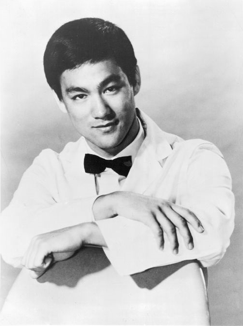 Photo of Bruce Lee as Kato, from the television series The Green Hornet.